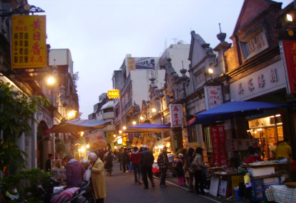 Dasi,Taiwan.